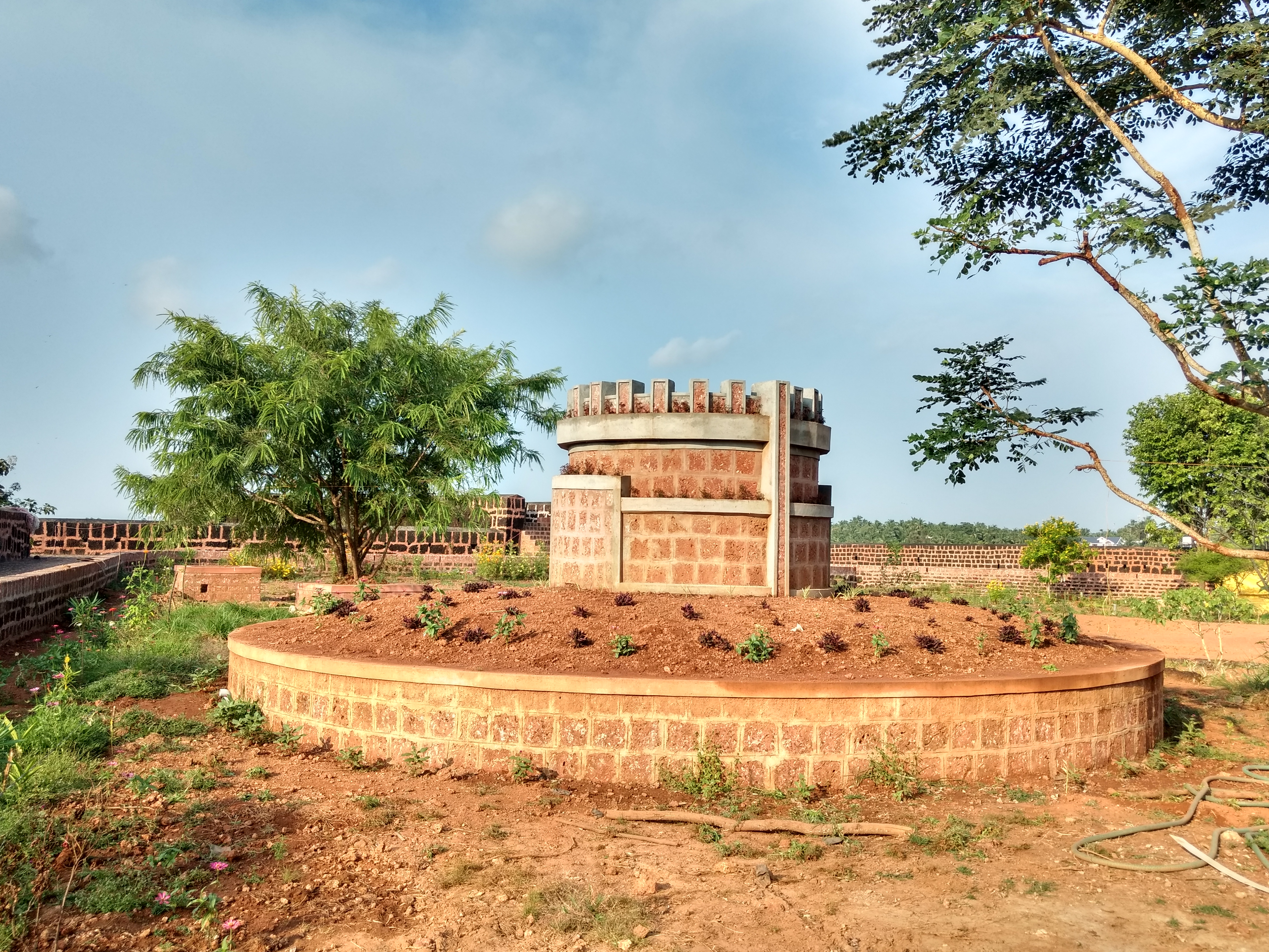 A DECORATIVE WATER TANK- NEWLY CONSTRATED